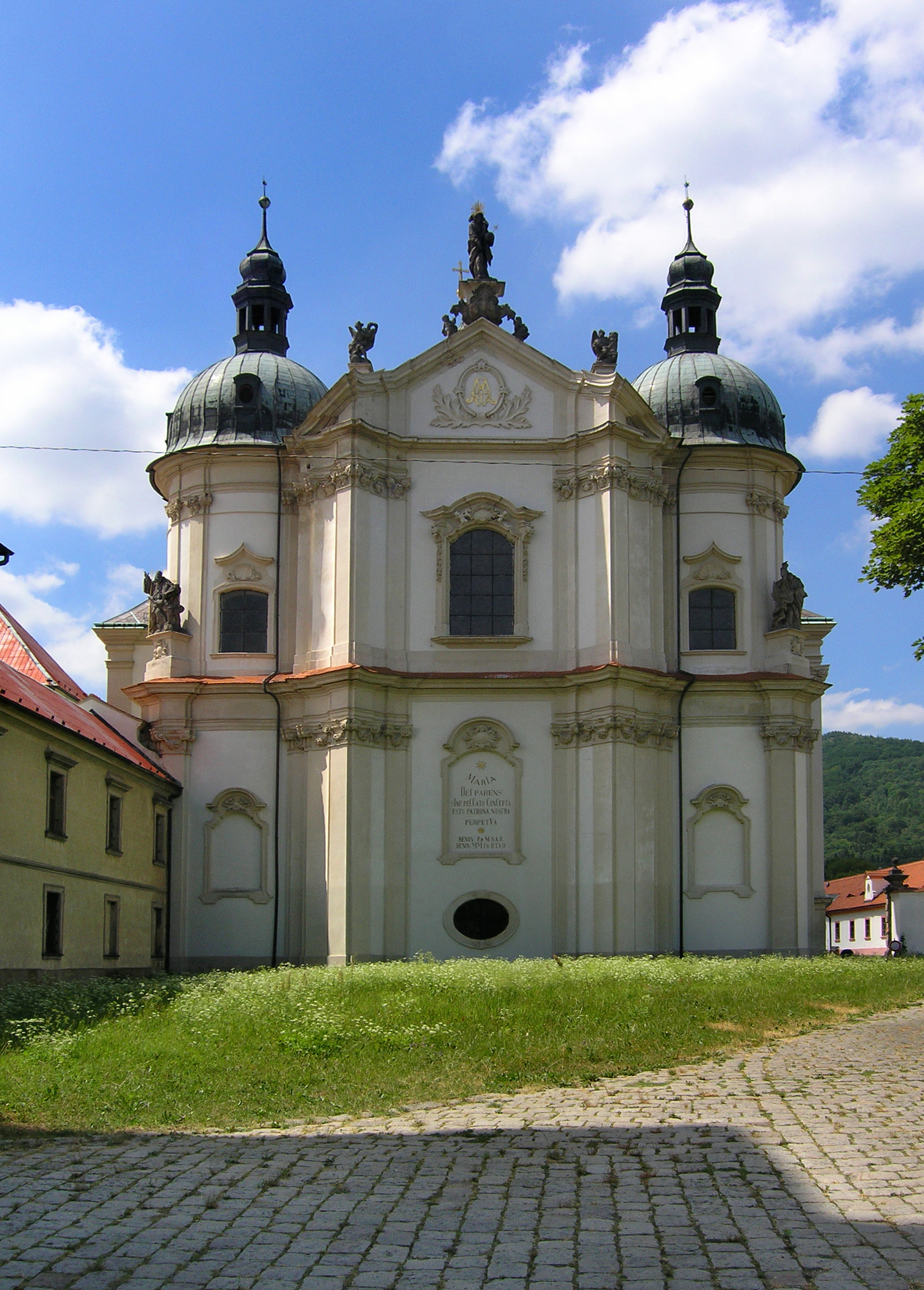 Church in Osek town, Czech Republic